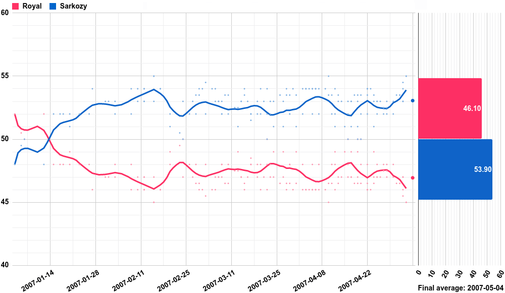 Ségolène Royal (PS) Nicolas Sarkozy (UMP)